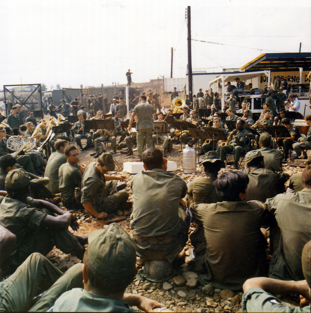 CC 73569. Vietnam…The Army Band plays Christmas music at the Tan Nhut Airbase during the holiday season. 22-29 Dec 1970. From